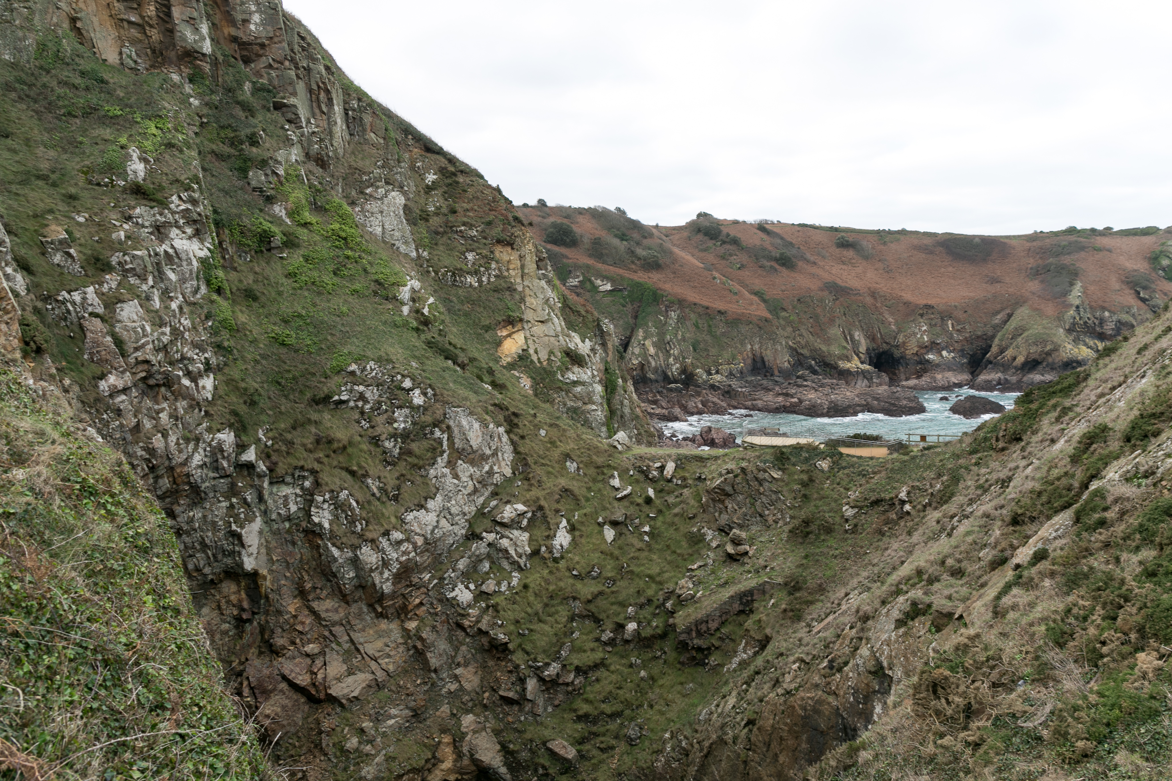 The Devil's Hole in Saint Mary.